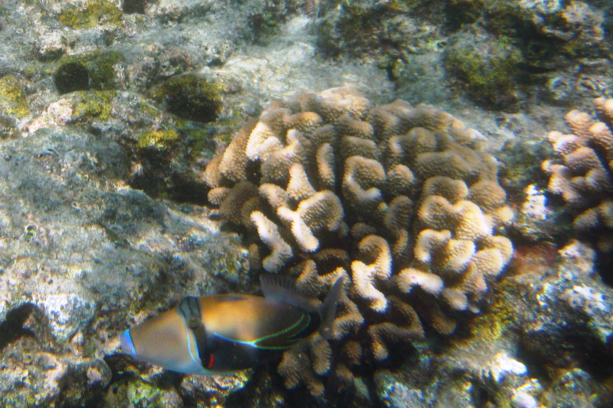 Humuhumunukunukuapua'a at Kealakekua Bay, Hawaii